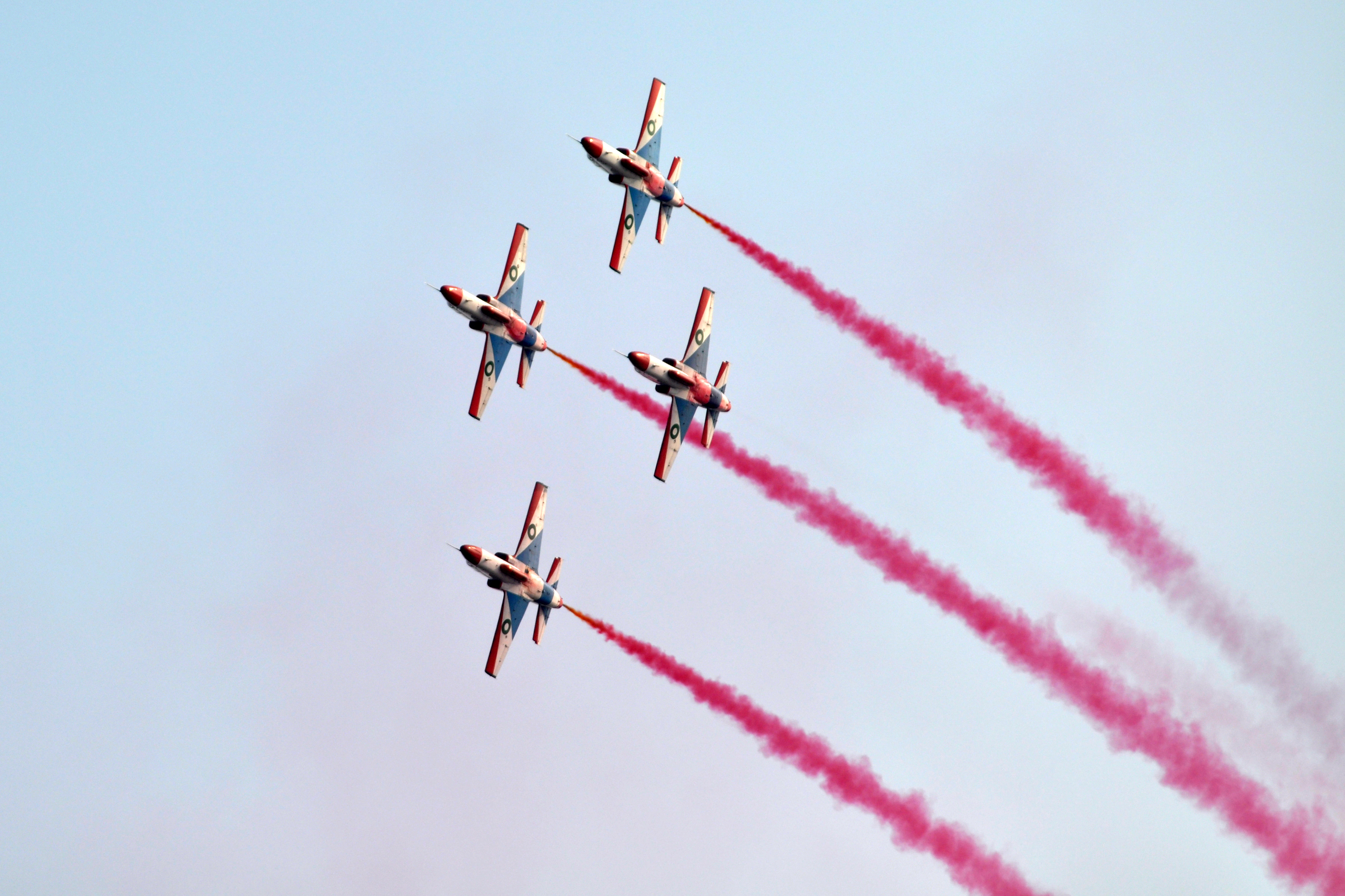 Four aircraft formation of K-8 Karakorum trainer aircraft of the Pakistan Air force Sherdils aerobatic display team.